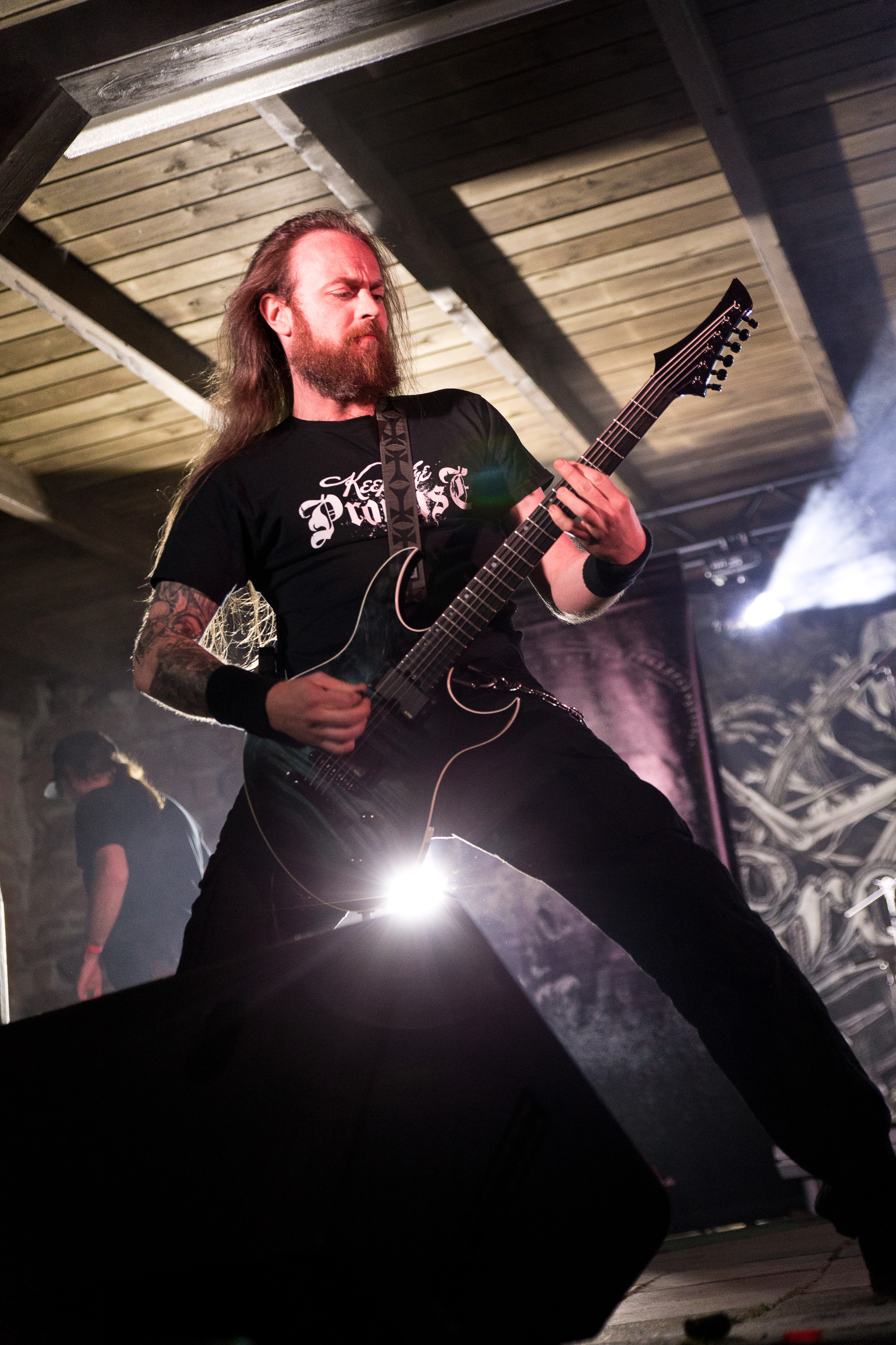 The Italian dark metal band Graveworm at the Dark Troll Open Air 2016 in Bornstedt/Germany.